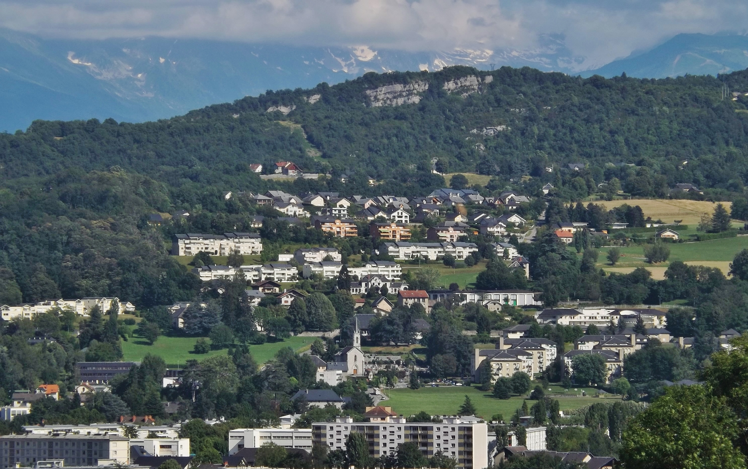 Panoramic sight of the French commune of Jacob-Bellecombette western side, from the western heights of the city of Chambéry, in Savoie.